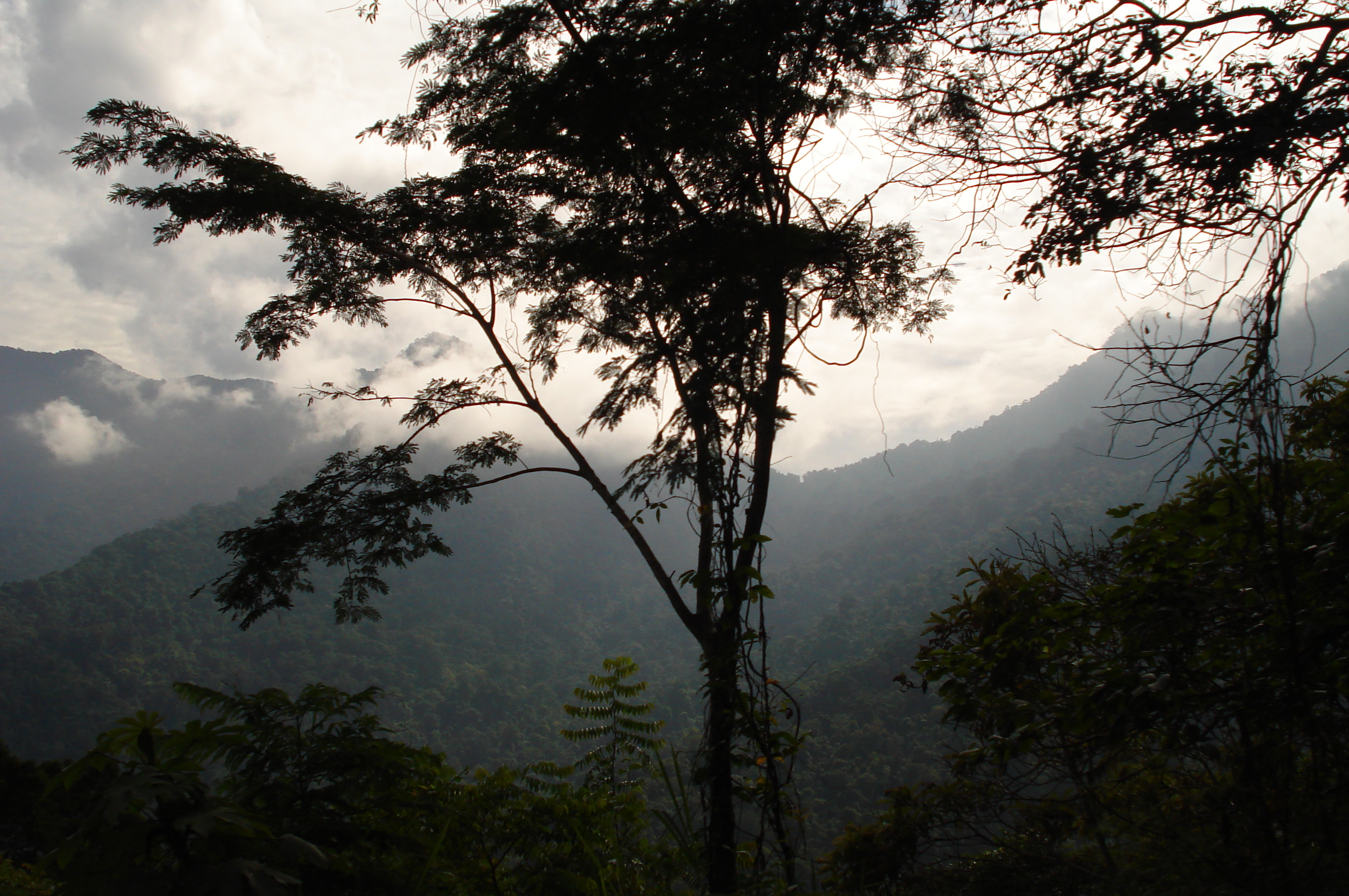 Tree and the Venezuelan Coastal Range in Henri Pittier National Park, northern Venezuela.